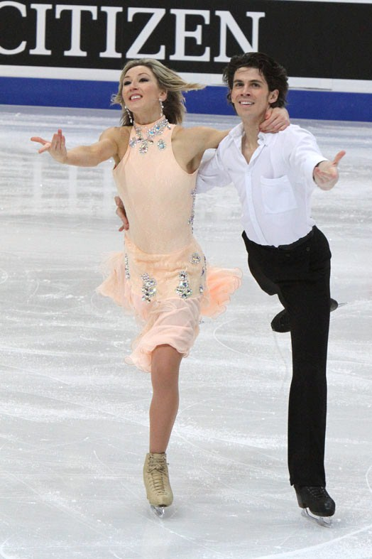 Sinead Kerr / John Kerr at the 2011 European Figure Skating Championships